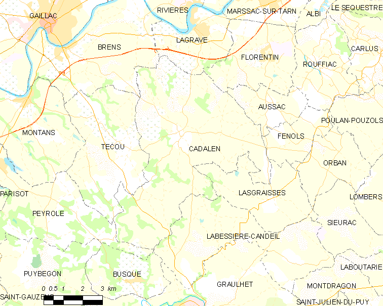 Map of French municipality Cadalen